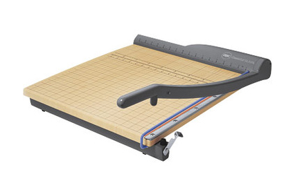 made this myself